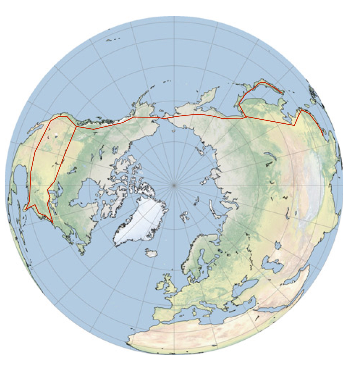 North Pole view of the earth